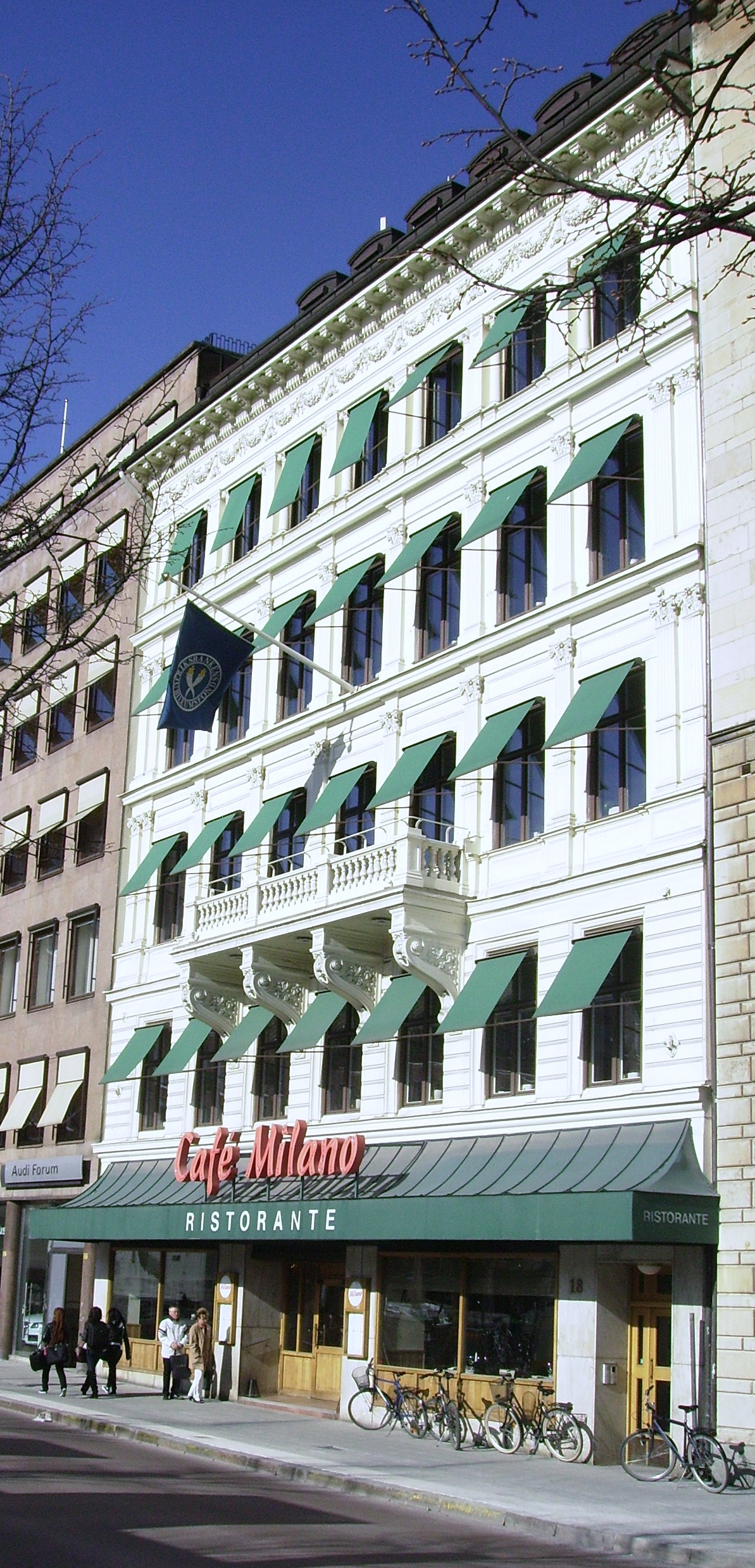 Picture of Kungsträdgårdsgatan 18 in Stockholm, former site for Svenska Panoptikon